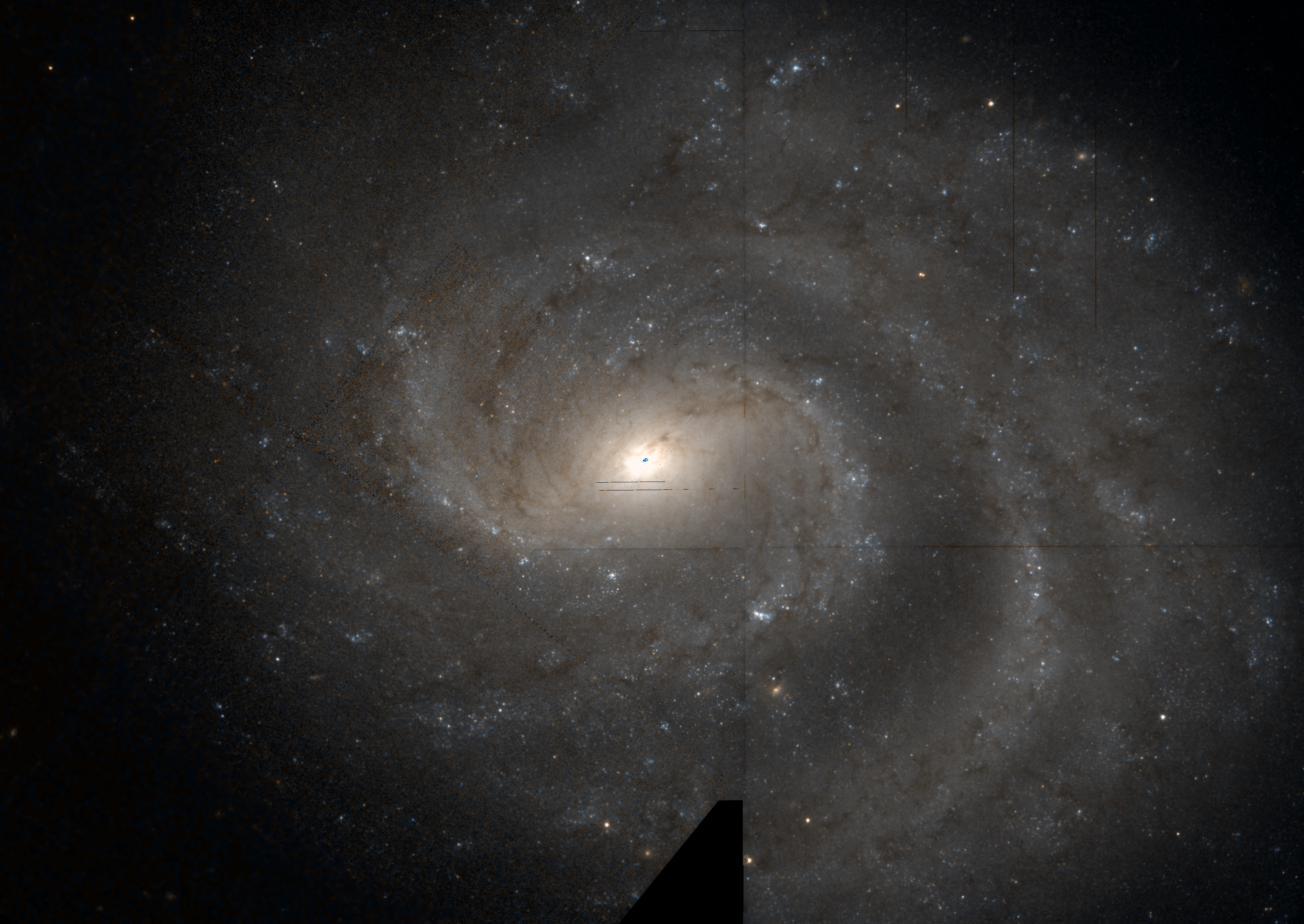 Color rendering is done by by Aladin-software (2000A&AS..143...33B.)